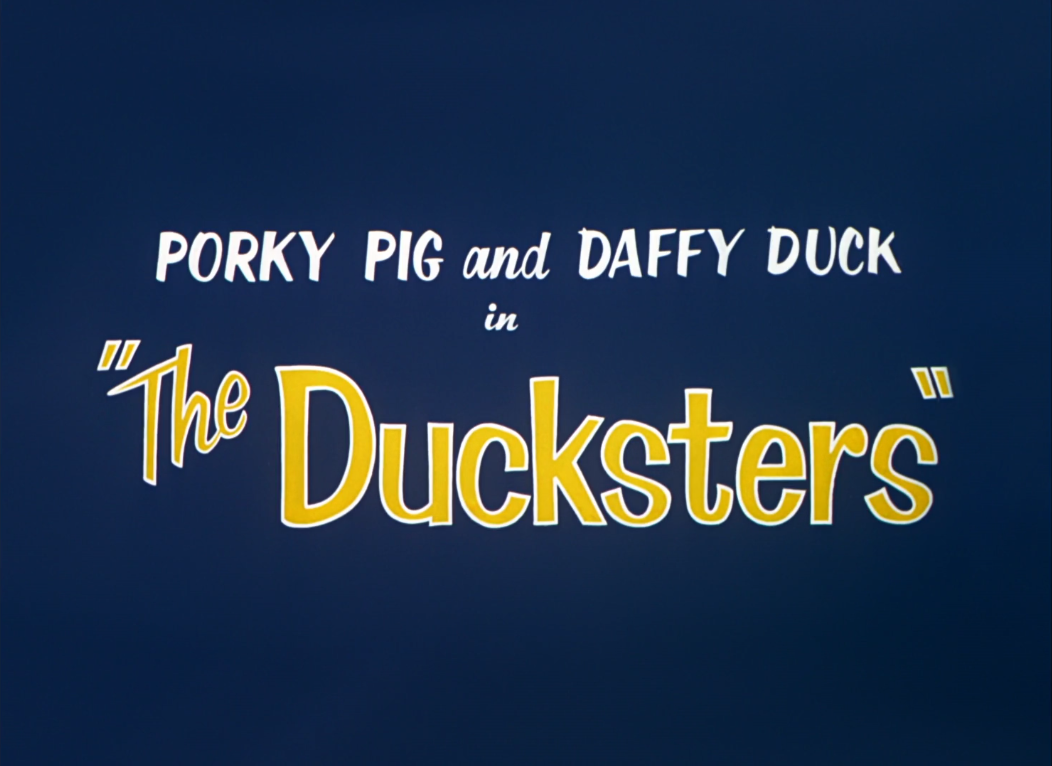 Title card from short film The Ducksters (1950).